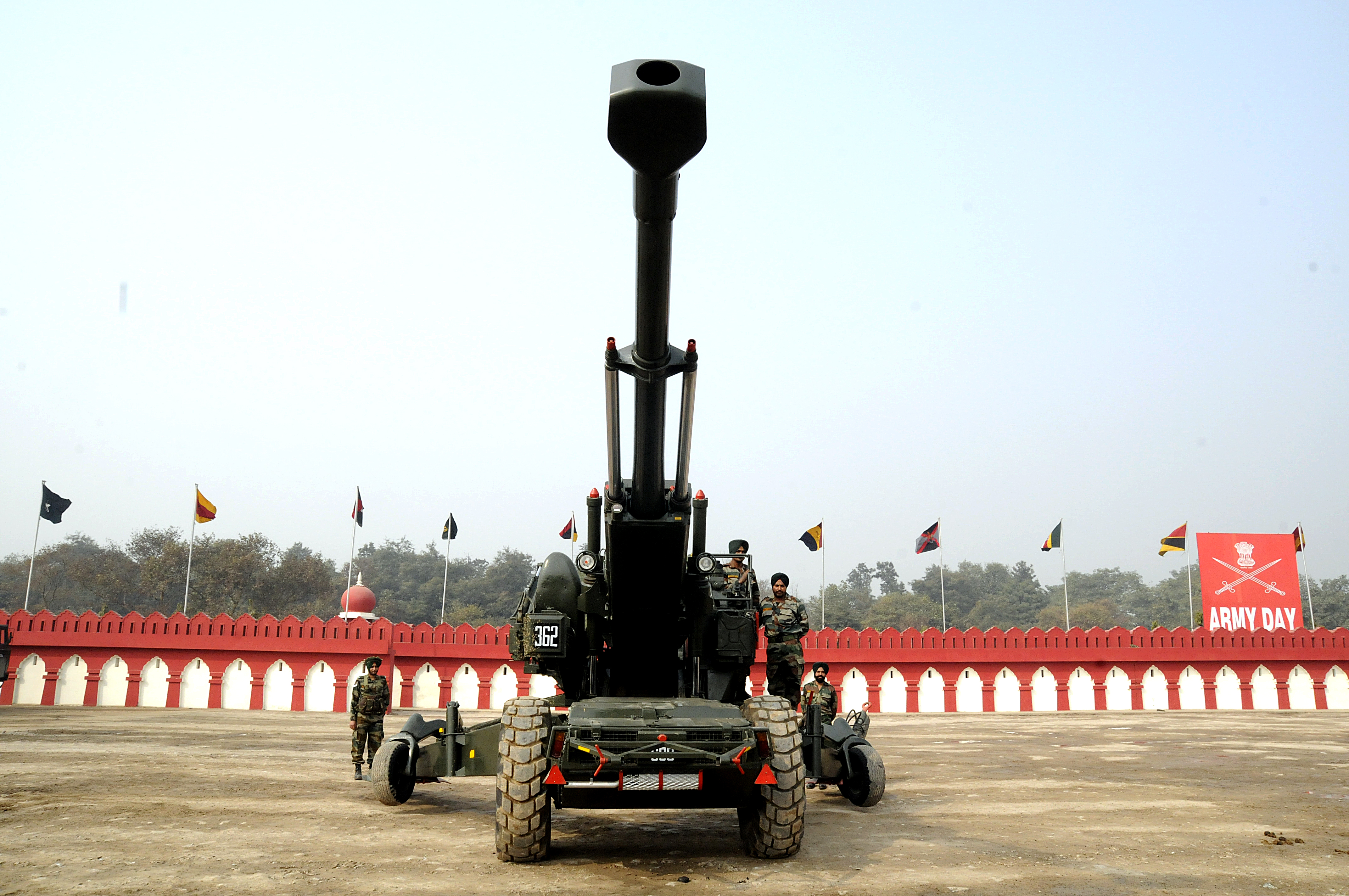 Indain Army Bofors Gun bofors gun 155mm